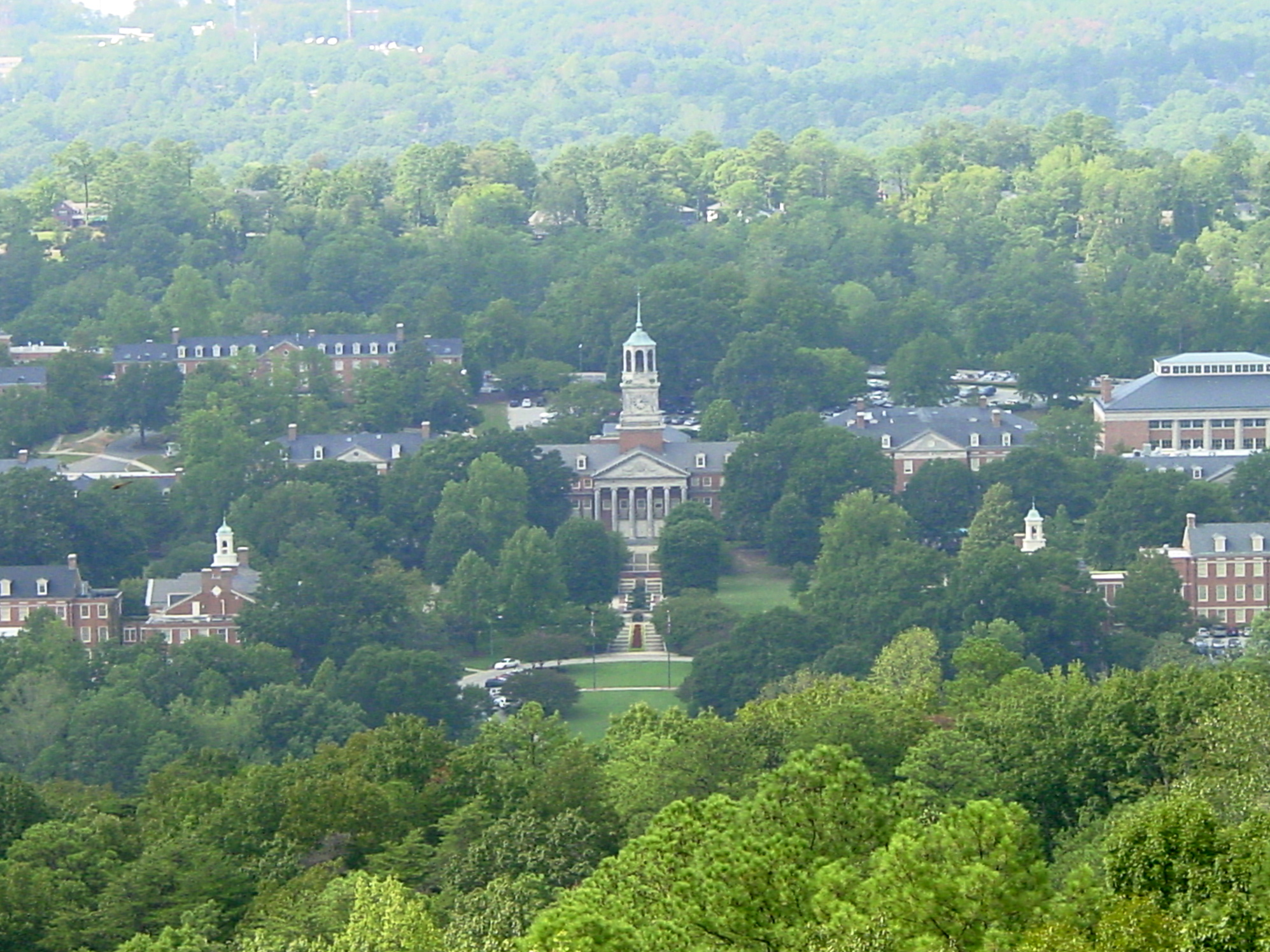 Davis Library (center, with bell tower) on campus of Samford University, Birmingham, Alabama